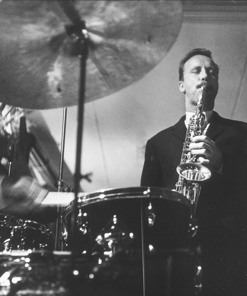 Herman Schoonderwalt plays saxophone at the Eerbeek Jazz Club somewhere in the nineteensixties, located in De Zweeuw Golfkarton Factory, Eerbeek the Netherlands.